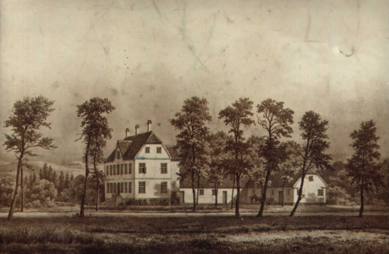 Haraldskær Estate in the year 1857